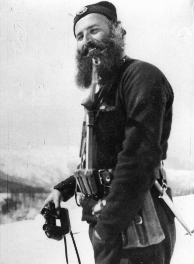 Dragoslav Račić, vojvoda of the Chetniks during World War II.